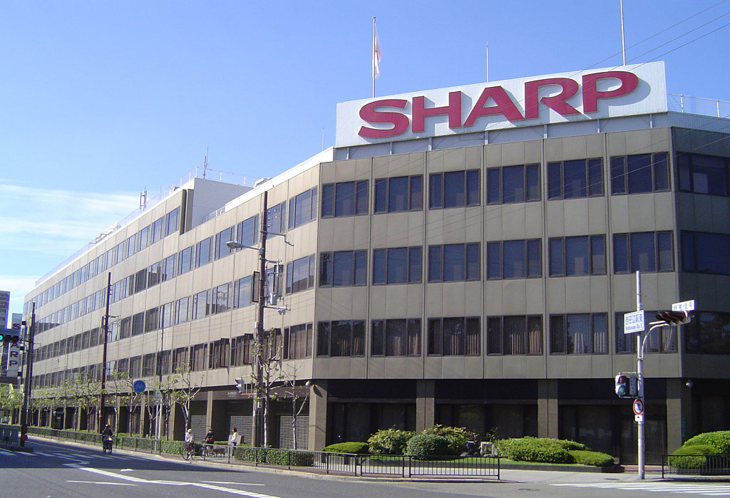 Head Office of Sharp Corporation in Osaka.